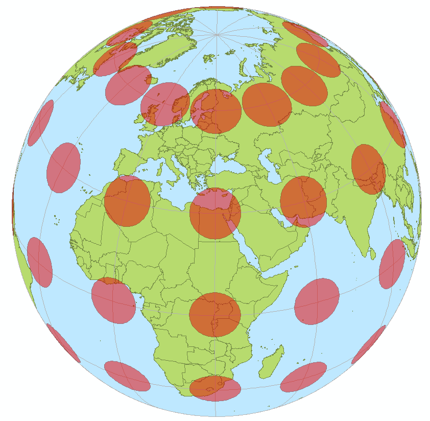 Tissot´s Indicatrix; View from Space